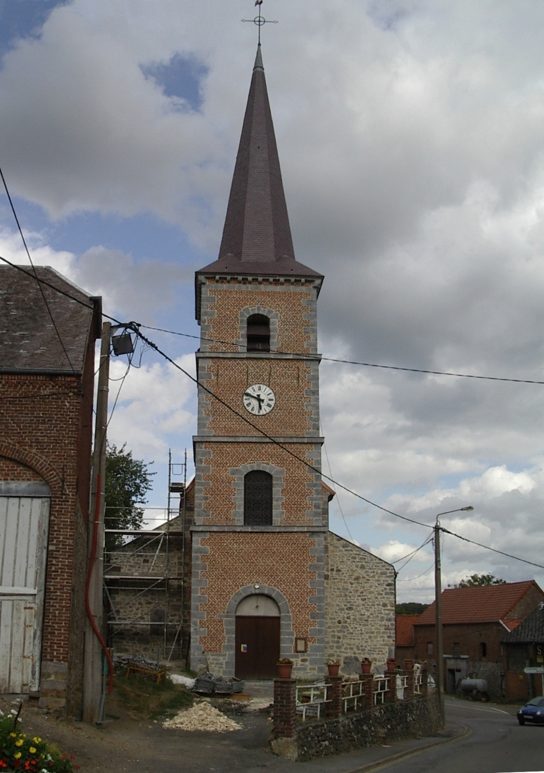 Churche of Obrechies (Nord, France)